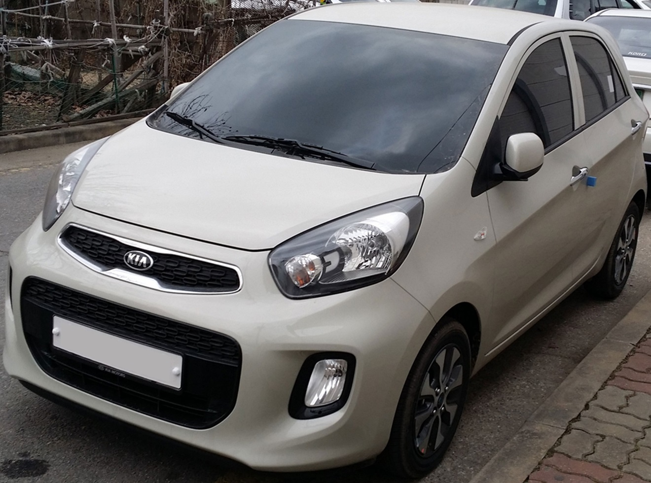 Kia The New Morning